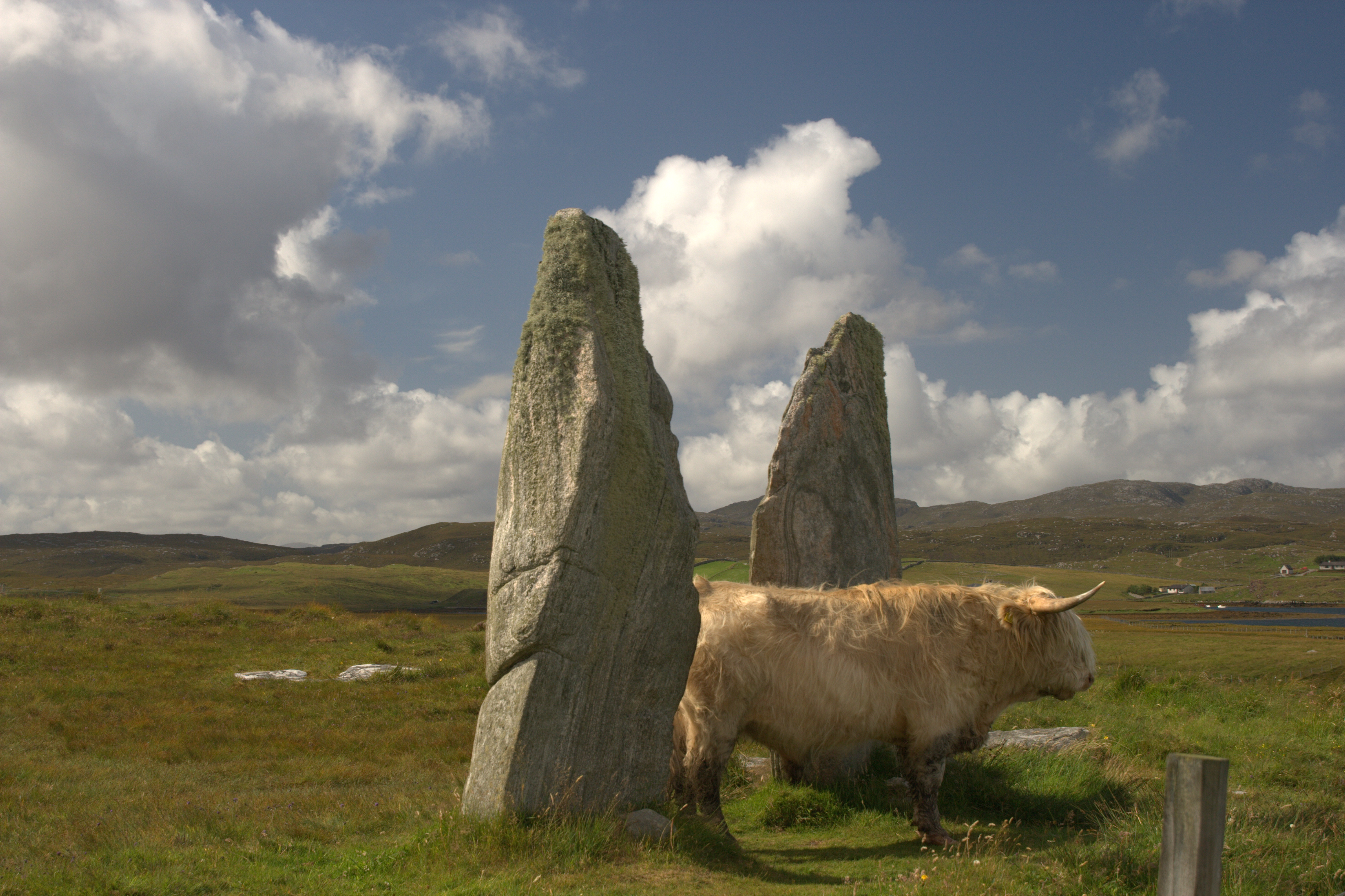 Callanish II rockdetaill